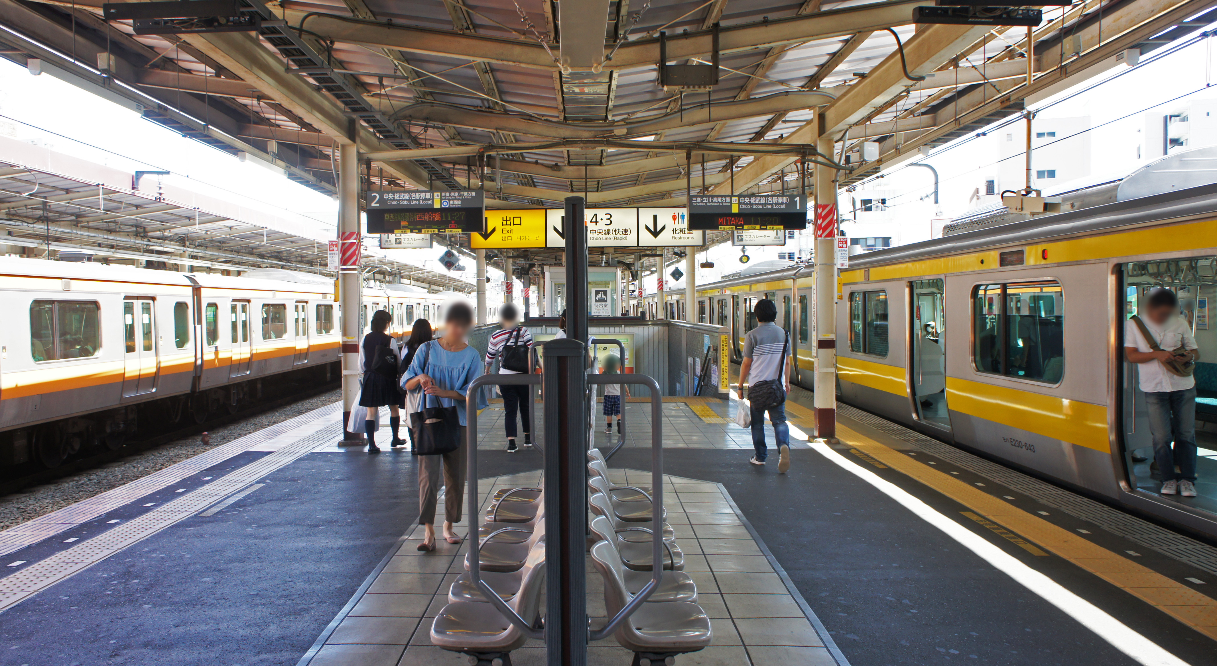 Platform 1・2 (Chuo-Sobu Line) of JR Chuo-Main-Line Nishi-Ogikubo Station